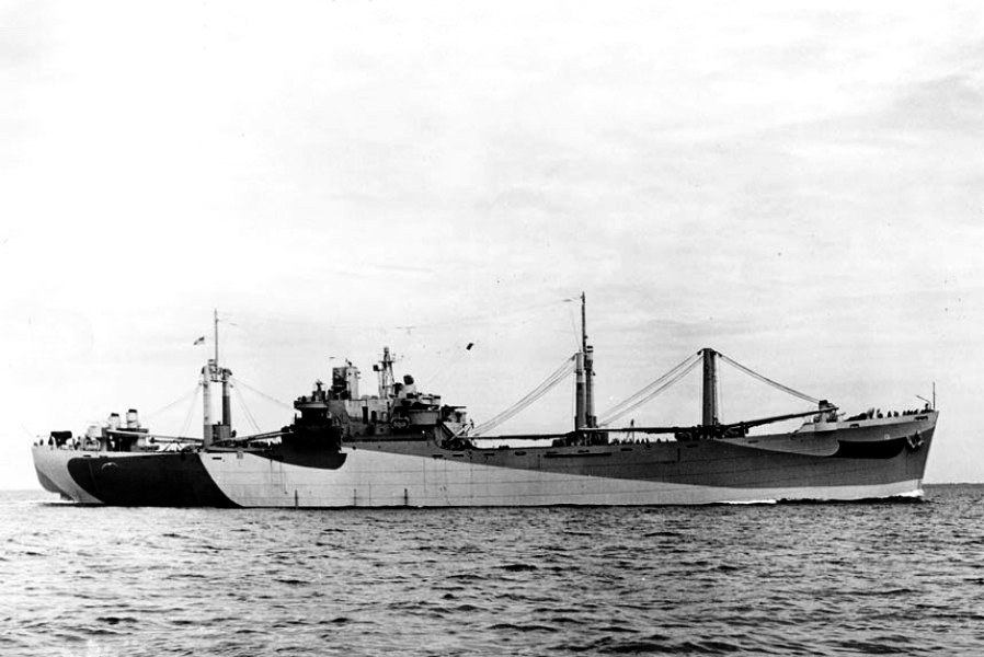 USS Akutan (AE-13), painted in camouflage measure 32 design 13F, underway near Tampa, FL. 23 February 1945.